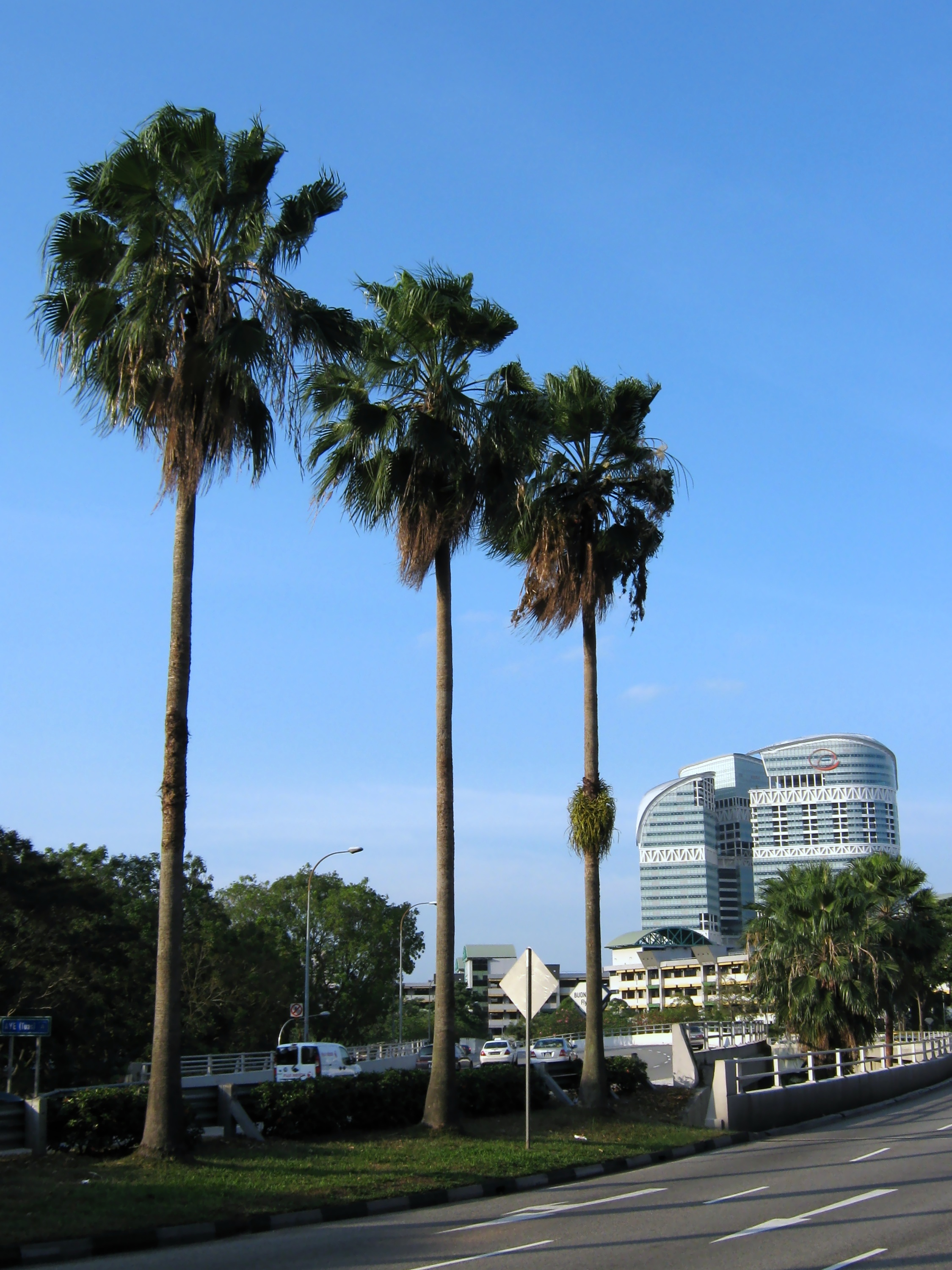 In Apr/May 2009, I took 15 days to walk all the way from Tokyo to Kyoto, roughly following the 546km long, ancient highway, the Nakasendo, alone. This picture was taken on one of the many training walks I did for the long solo walk in Singapore. Read about my preparations and my time in Japan at .